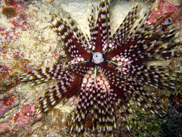 Banded seaurchin (Echinothrix calamaris), Pulau Aur, West Malaysia